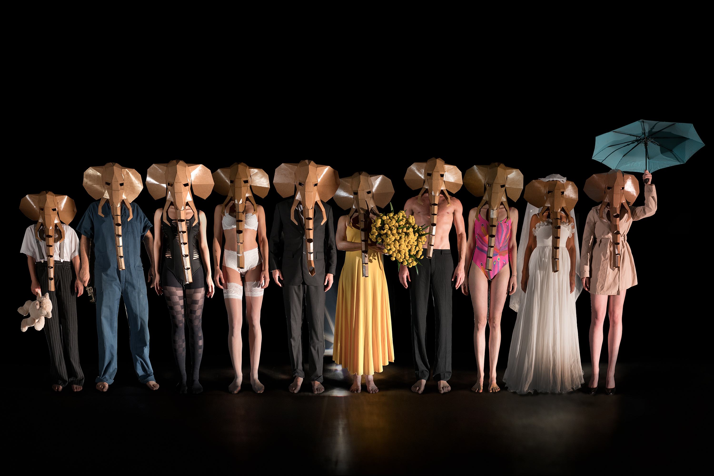 Foto divulgação espetáculo havemos de amanhecer